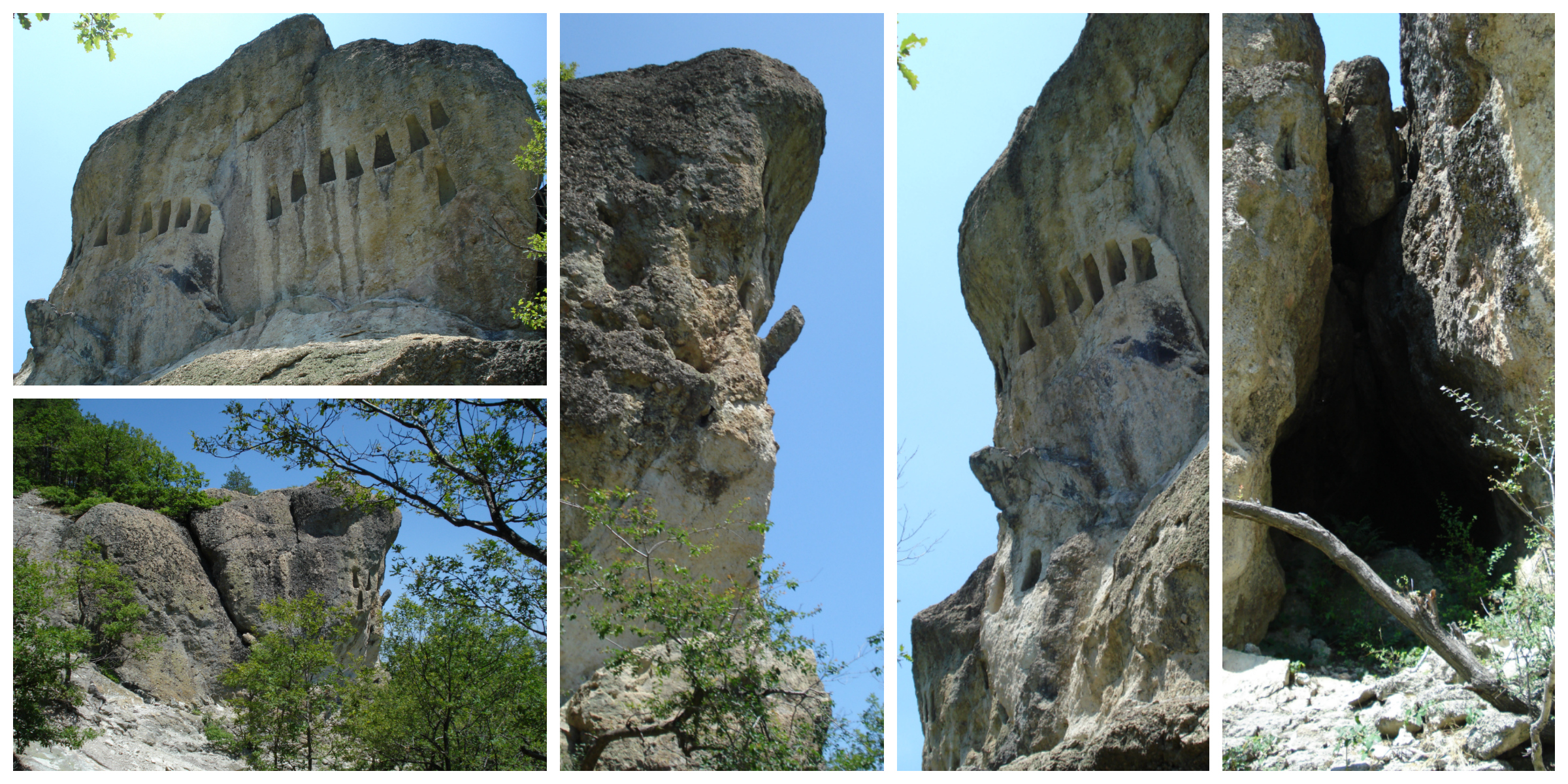 Parmak kaya Nochevo Bulgaria 02